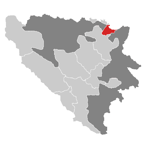 Blank map of Bosnia and Herzegovina with entities, Brčko district highlighted